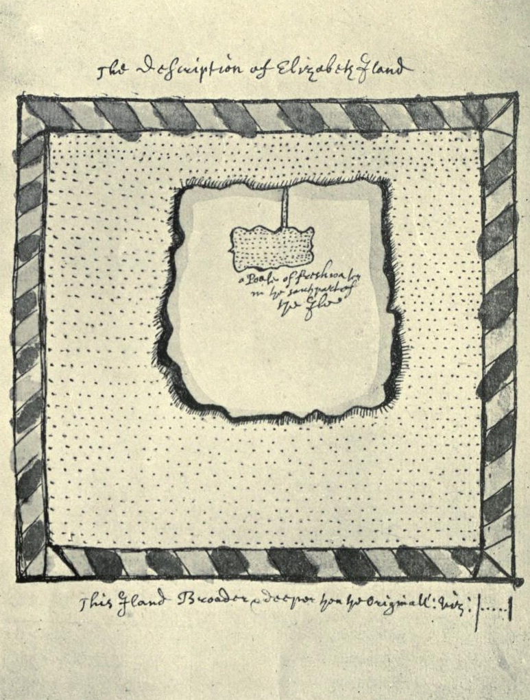 Copy by John Conyers of Francis Fletcher's map of Elizabeth Island, off Cape Horn, forming part of the British Library's Sloane Manuscript 61. Map is headed "The Description of Elizabeth Iland", the note in the middle of it reads "a Poole of freshwater in the south part of the Ile", and the note at the foot "This Iland Broader & deeper then the Originall: Viz: |.....|"